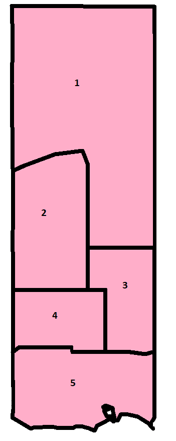 Map of Oshawa, Ontario's wards